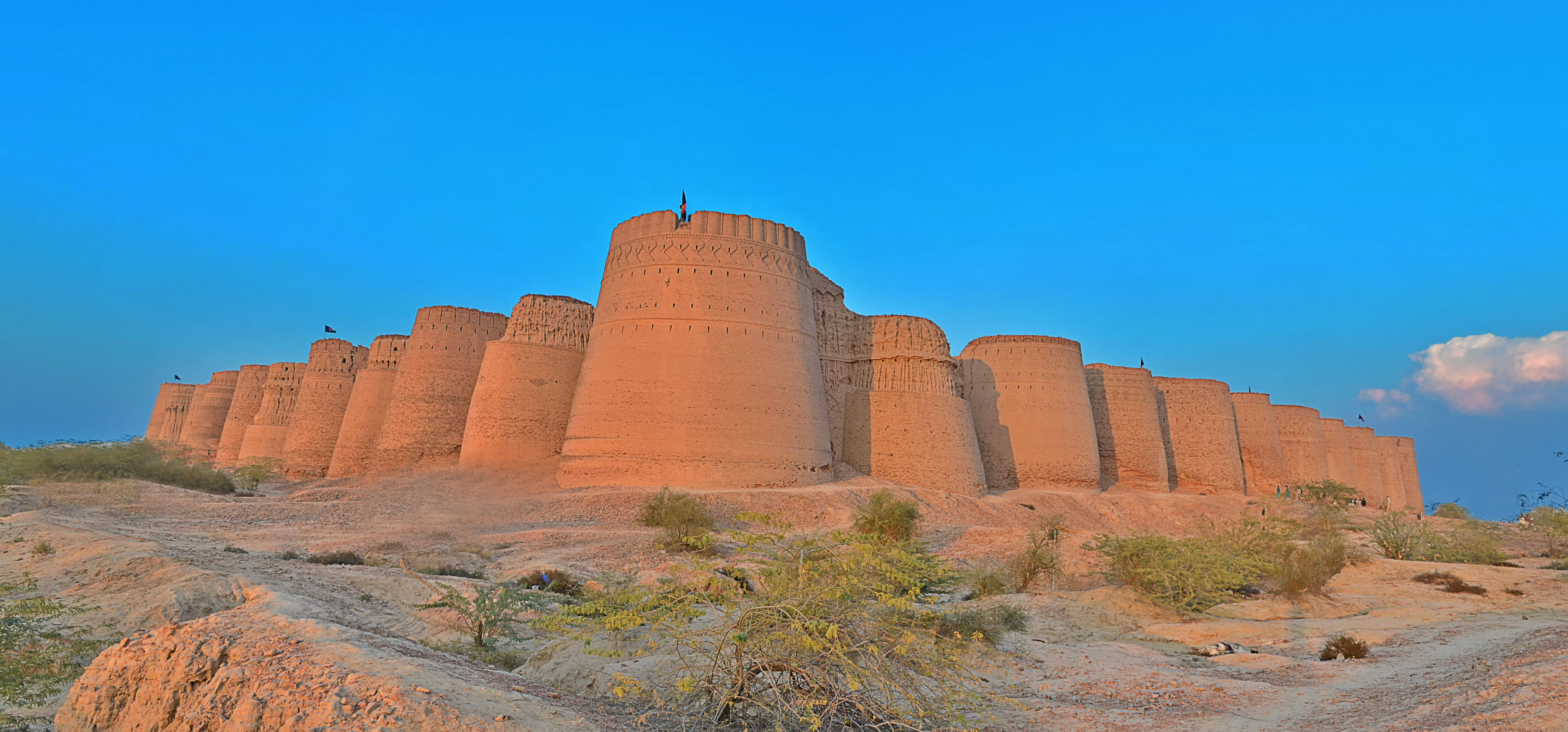 Derawar Fort This is a photo of a monument in Pakistan identified as the PB-U-5